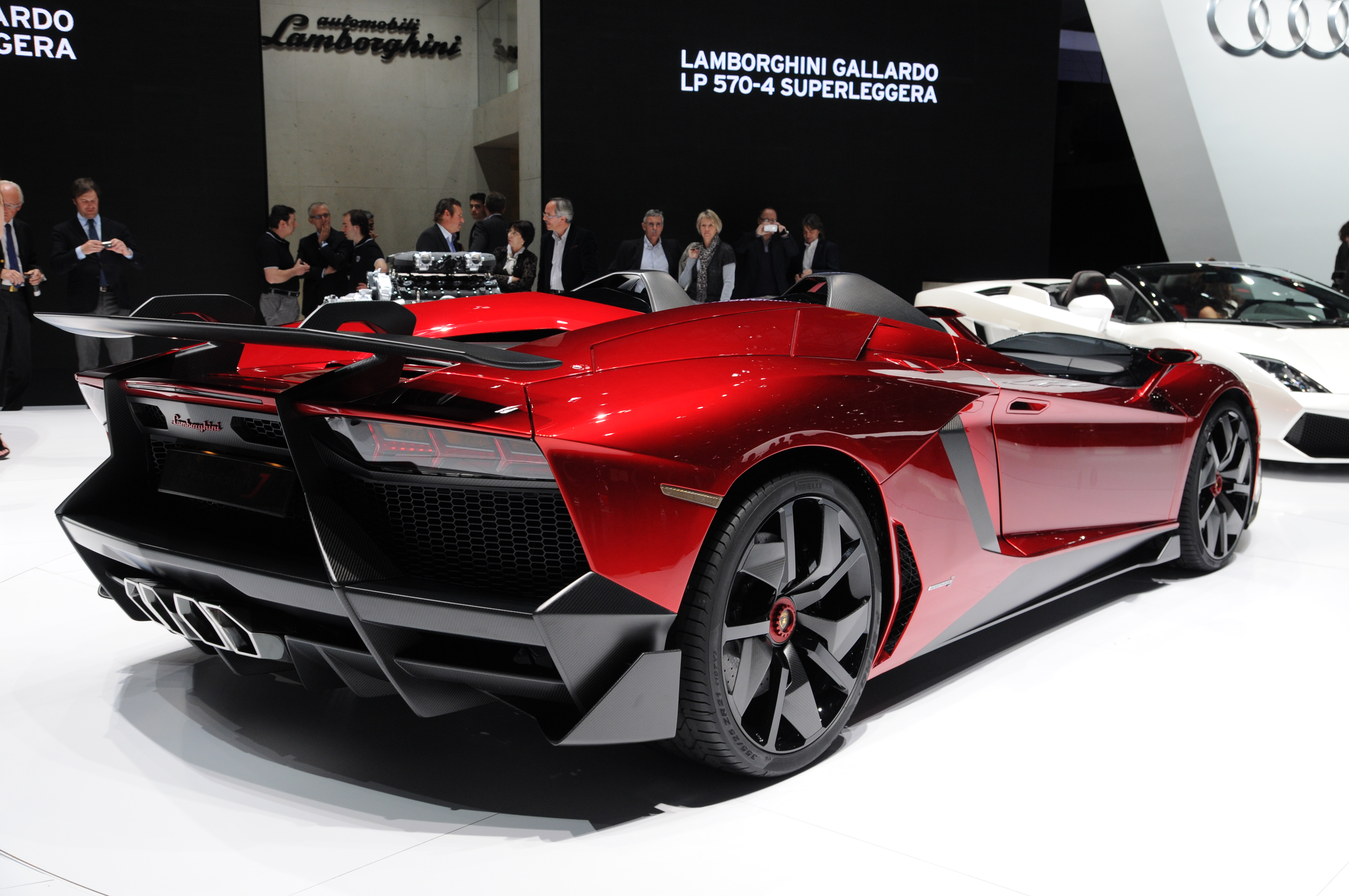 Geneva Motor Show 2012 (photos taken on the second press day)